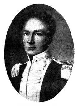 James Tod, Annals and Antiquities of the Central and Western Rajput States of India, v. II (1920). Frontispiece. Internet Archive, .